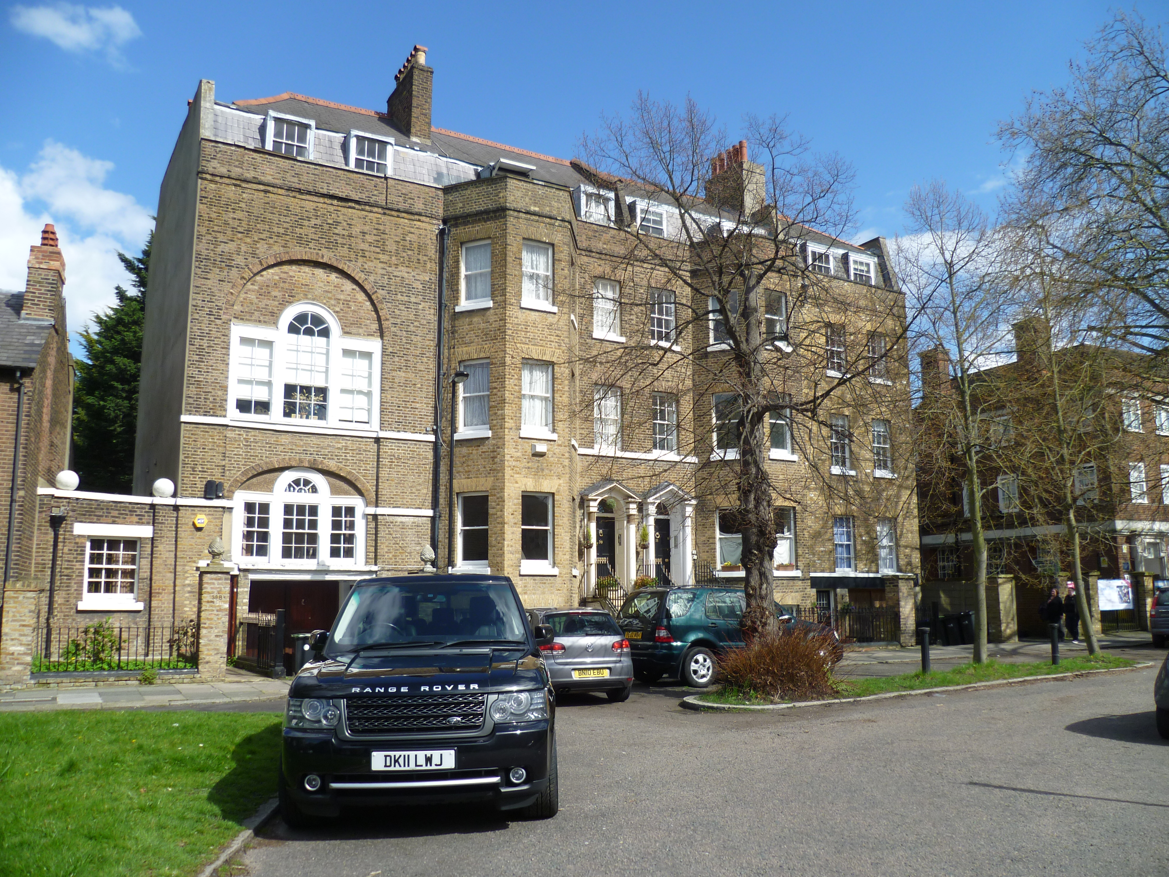 Southgate